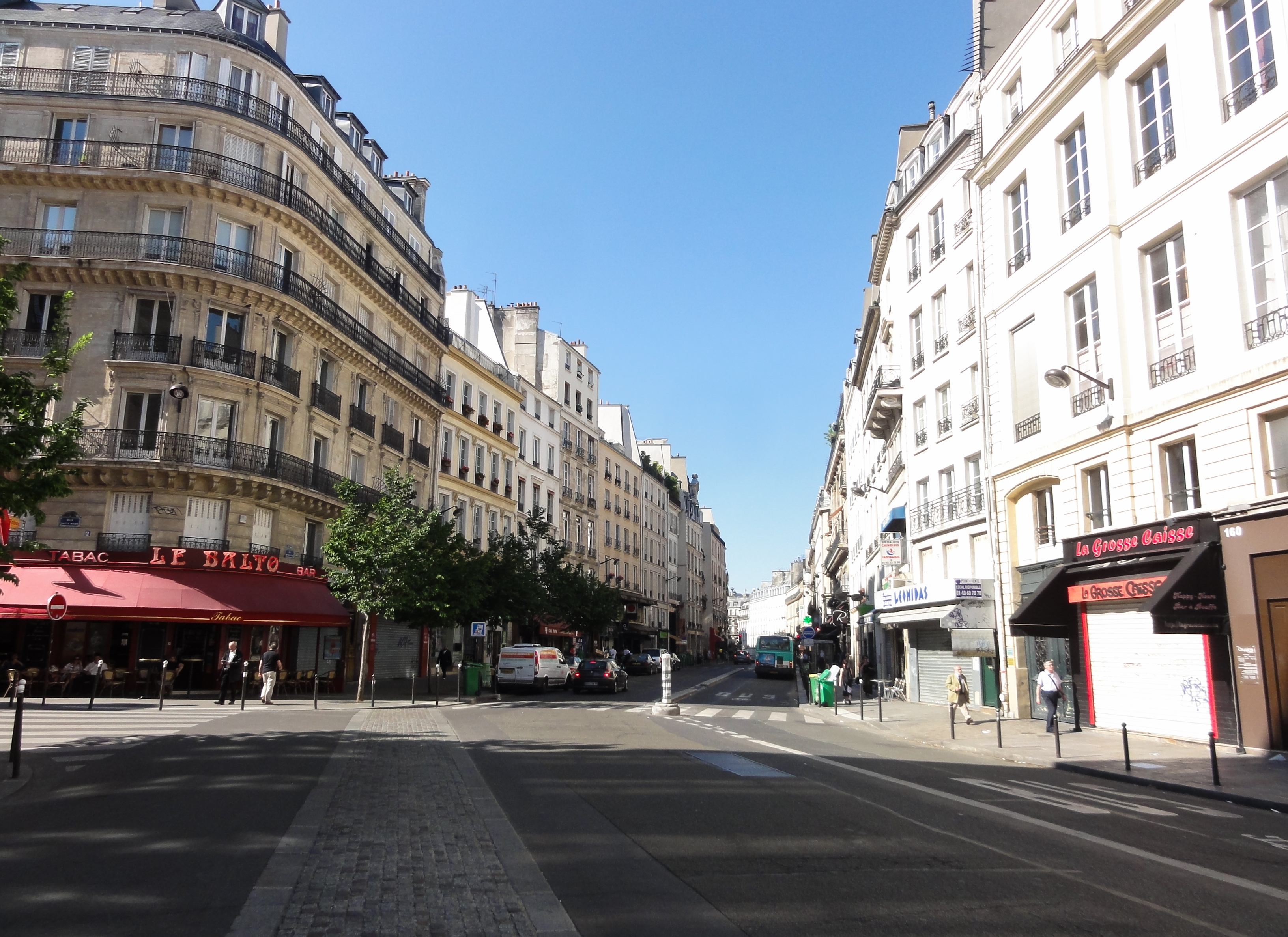 More informations about the city on !